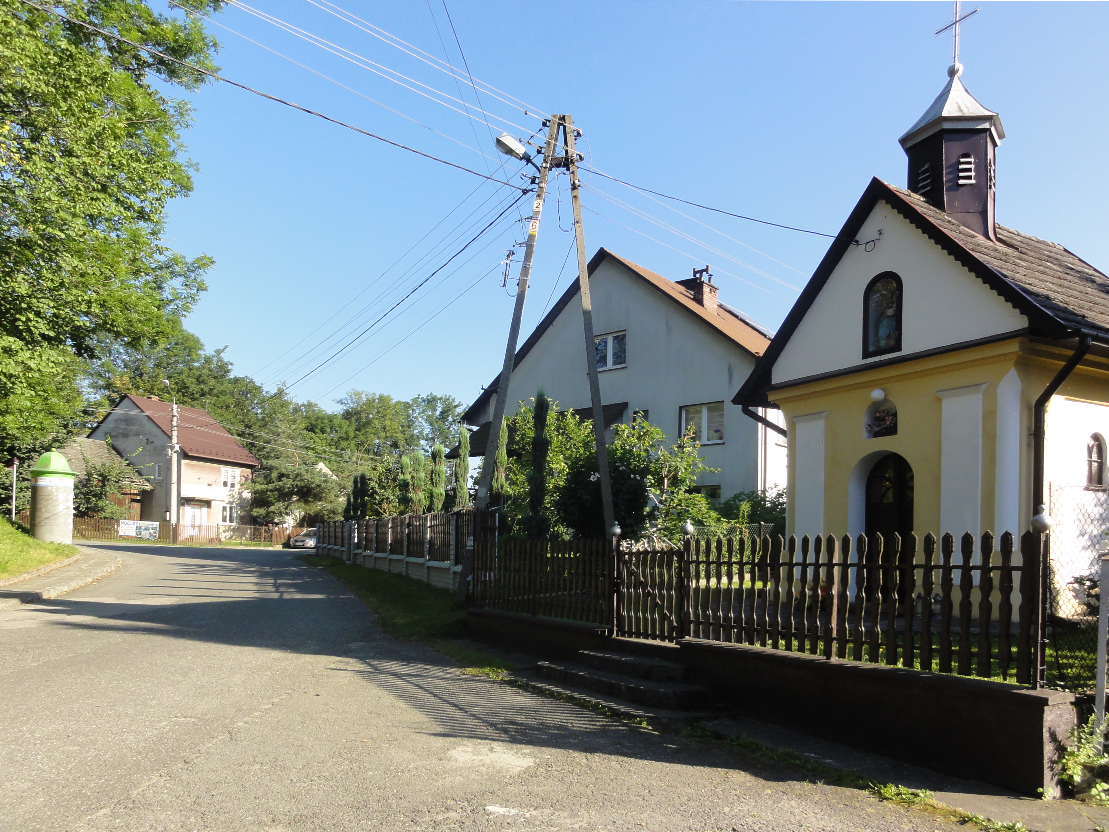 Grodzisko